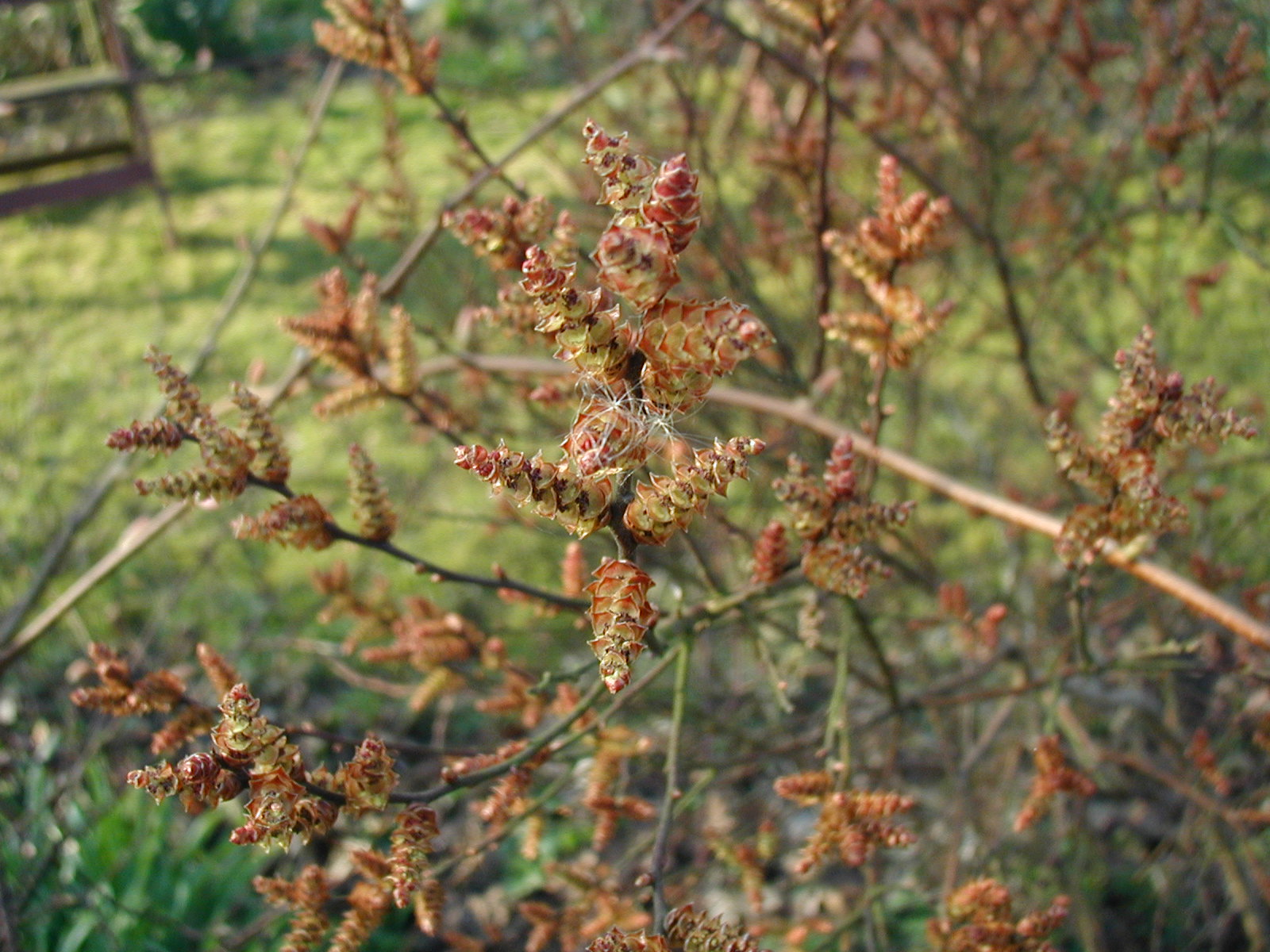 Sweet gale (Myrica gale): Male catkins. (Watermarks removed.)